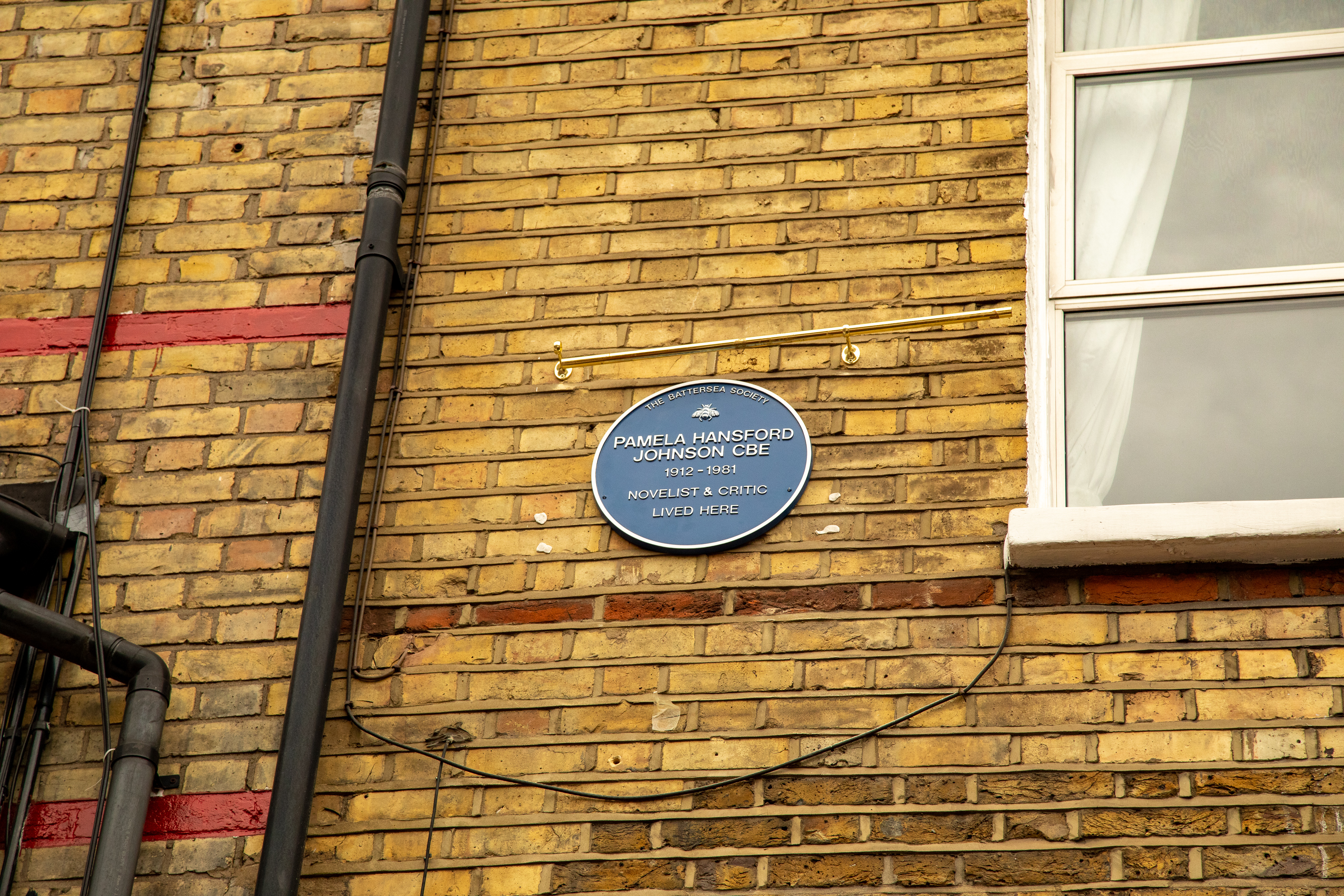 Pamela Hansford Johnson plaque unveiling in Clapham - 53 Battersea Rise